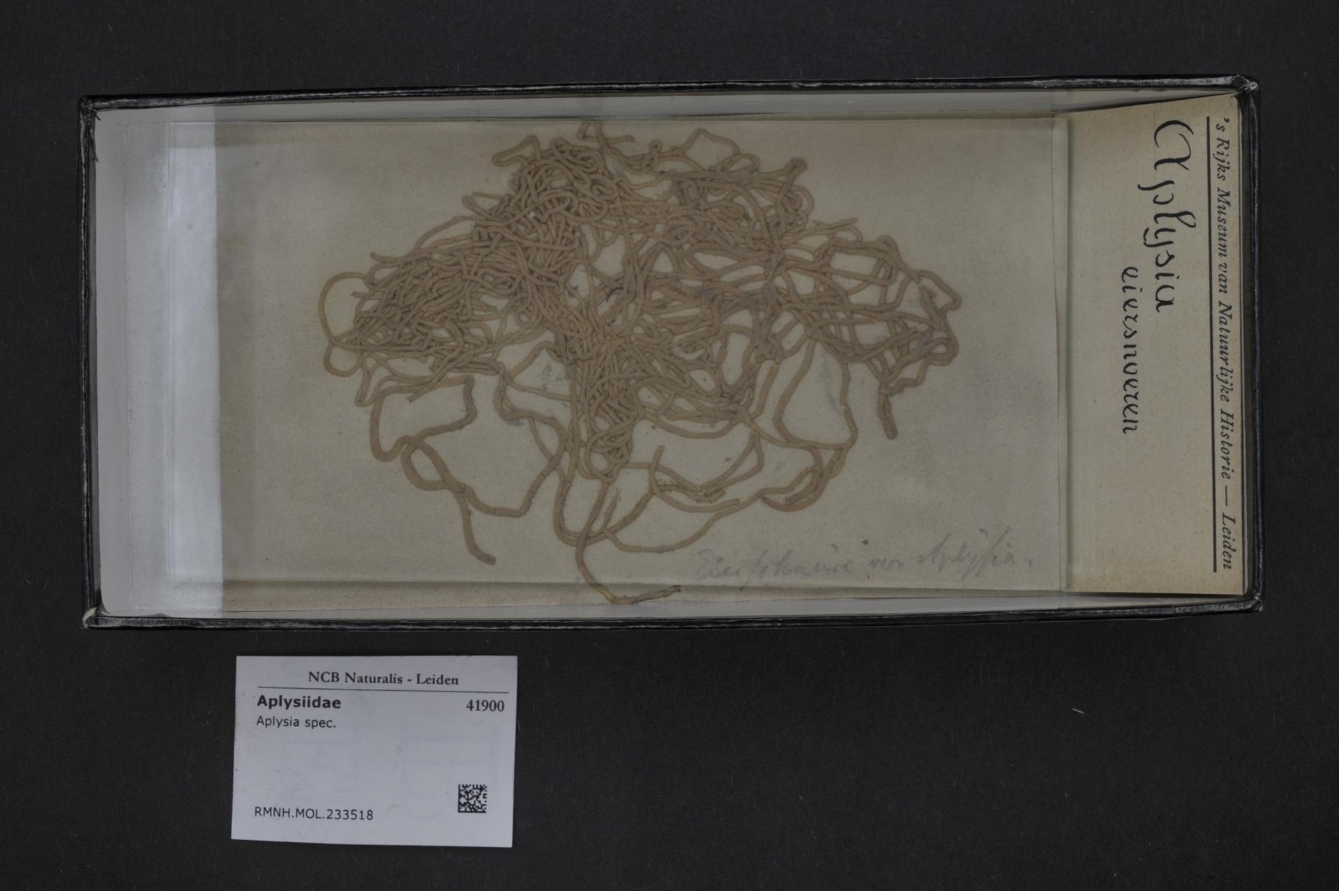 Aplysia spec., eggs